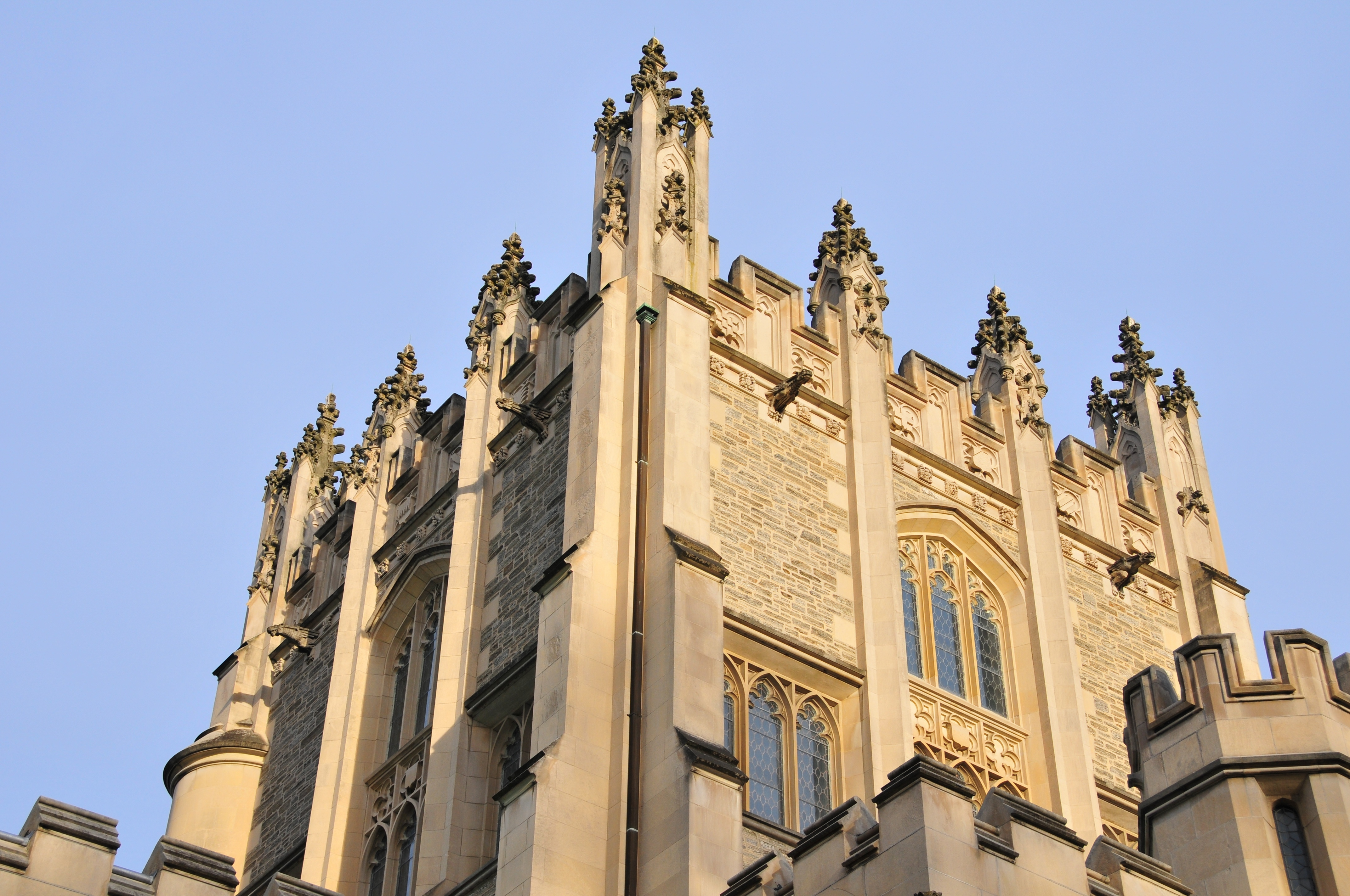 Spires, Thompson Memorial Library, Vassar College